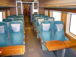 NSB Class 73 - BMU73 - Interior in standard seating area